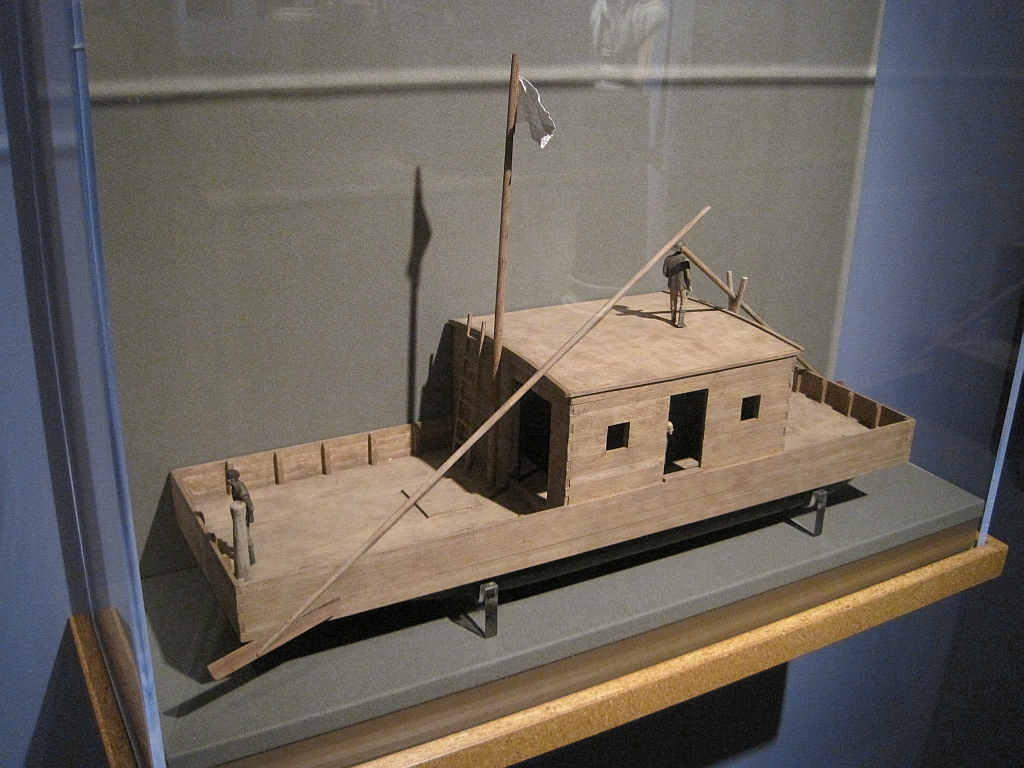 Tunica Riverpark and Museum at Tunica Resorts in Tunica County, Mississippi. Museum. Flatboat